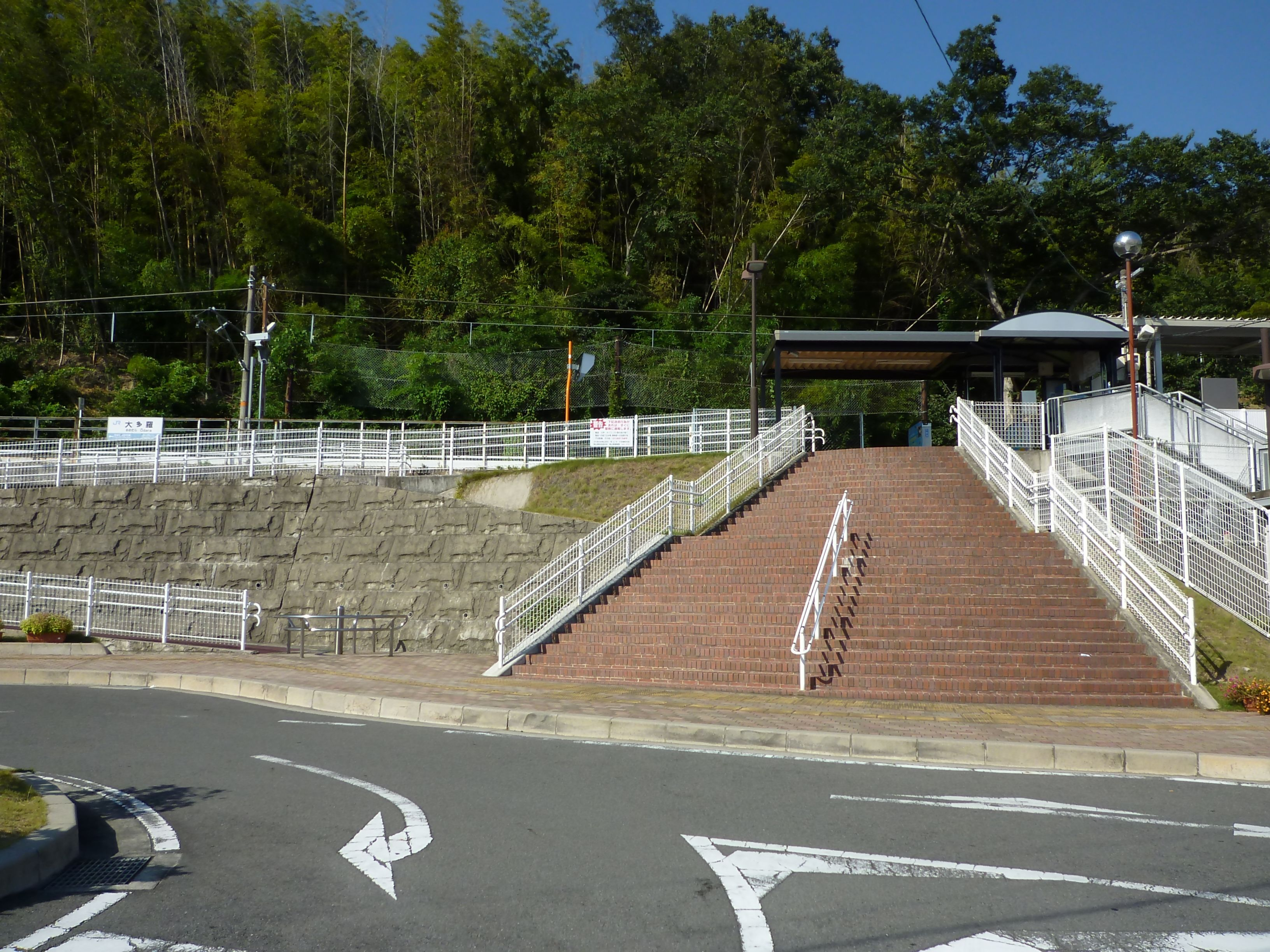 West Japan Railway, Ako Line, Odara Station (Higashi-ku,Okayama City,Okayama Pref,JPN)